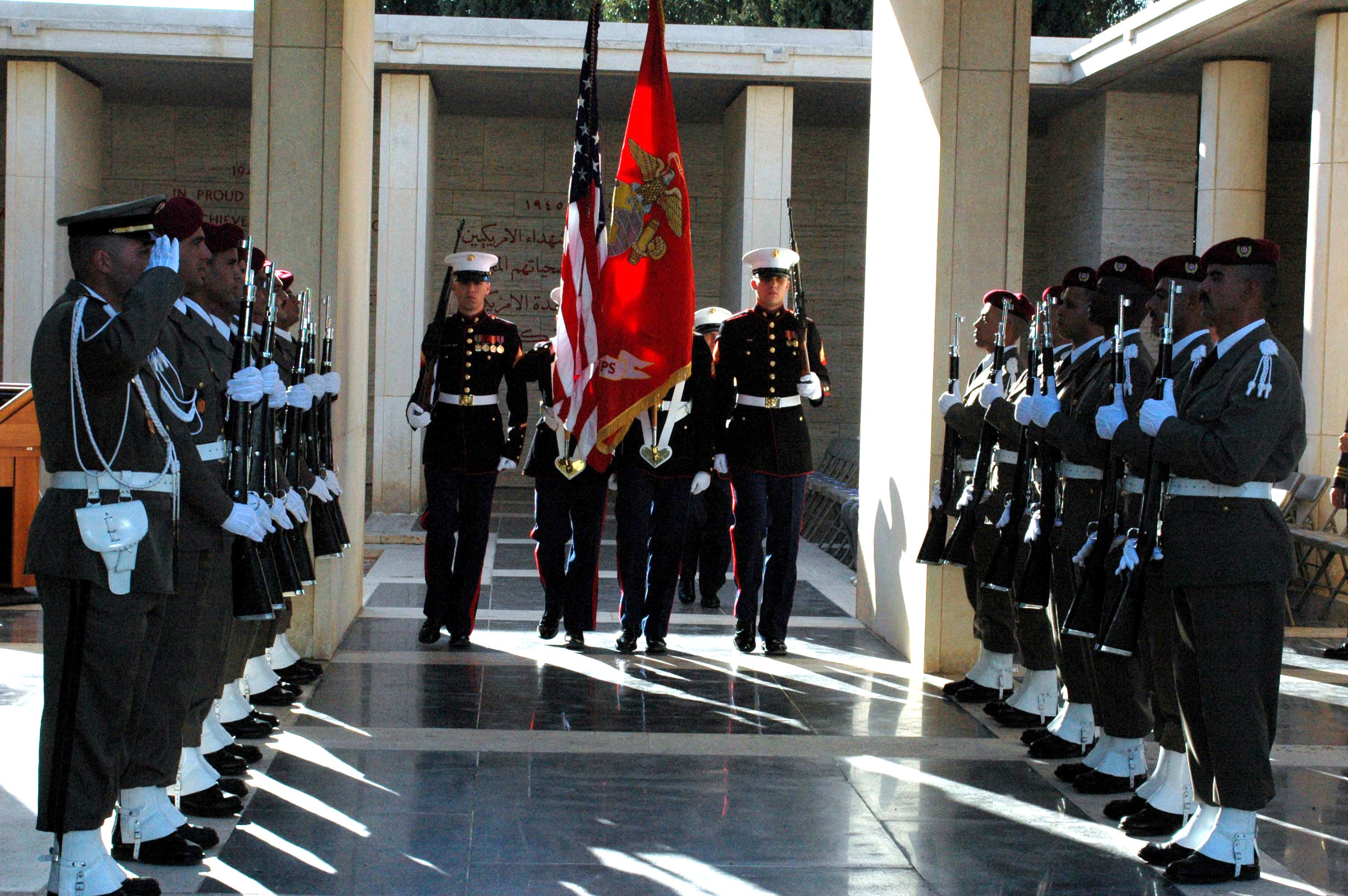 Tunis, Tunisia (Nov. 17, 2006) - The Marine Corps color guard assigned to the American Embassy in Tunis marches past a corridor of Tunisian honor guards while retiring the colors during a wreath-laying ceremony at the North African American Cemetery in Tunis. The Veterans Day ceremony was postponed by a few days in order to be performed during the port visit of dock landing ship USS Whidbey Island (LSD 41). Whidbey Island's visit marked the first port call of a major U.S. Navy ship in Tunisia since 2001. The North Africa American Cemetery is one of 24 American cemeteries on foreign soil and covers 27 acres of land between the Mediterranean and the Bay of Tunis. Established in 1948, the cemetery holds the graves of 2,841 service members who died while serving during the World War II North Africa campaign. U.S. Navy photo by Mass Communication Specialist 2nd Class Rosa Larson (RELEASED)